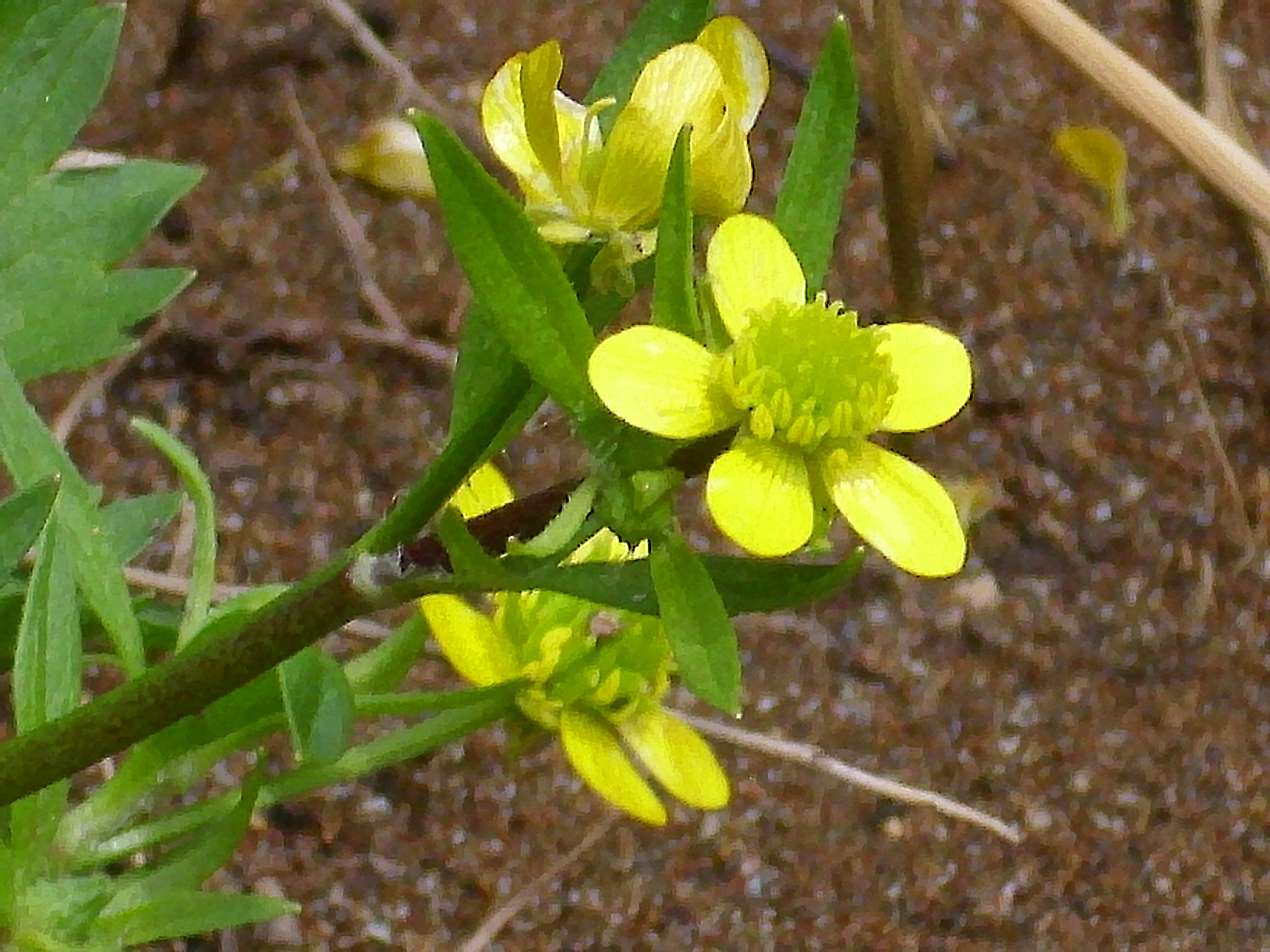 Ranunculus murinus close up, Sierra Madrona, Spain